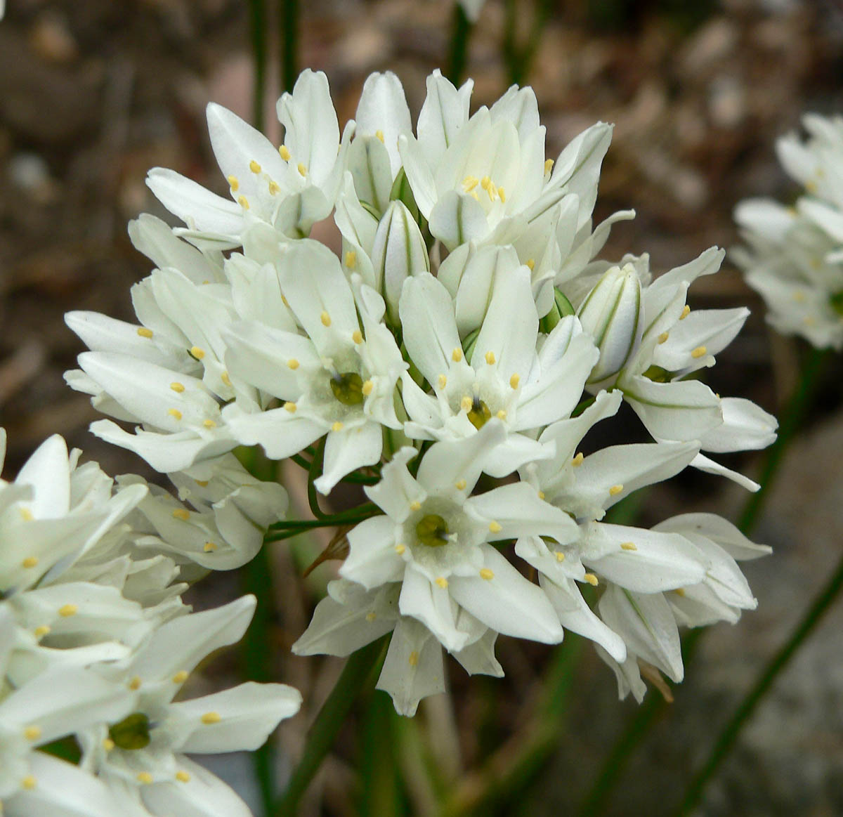 Photo of Triteleia hyacinthina at the University of California Botanical Garden